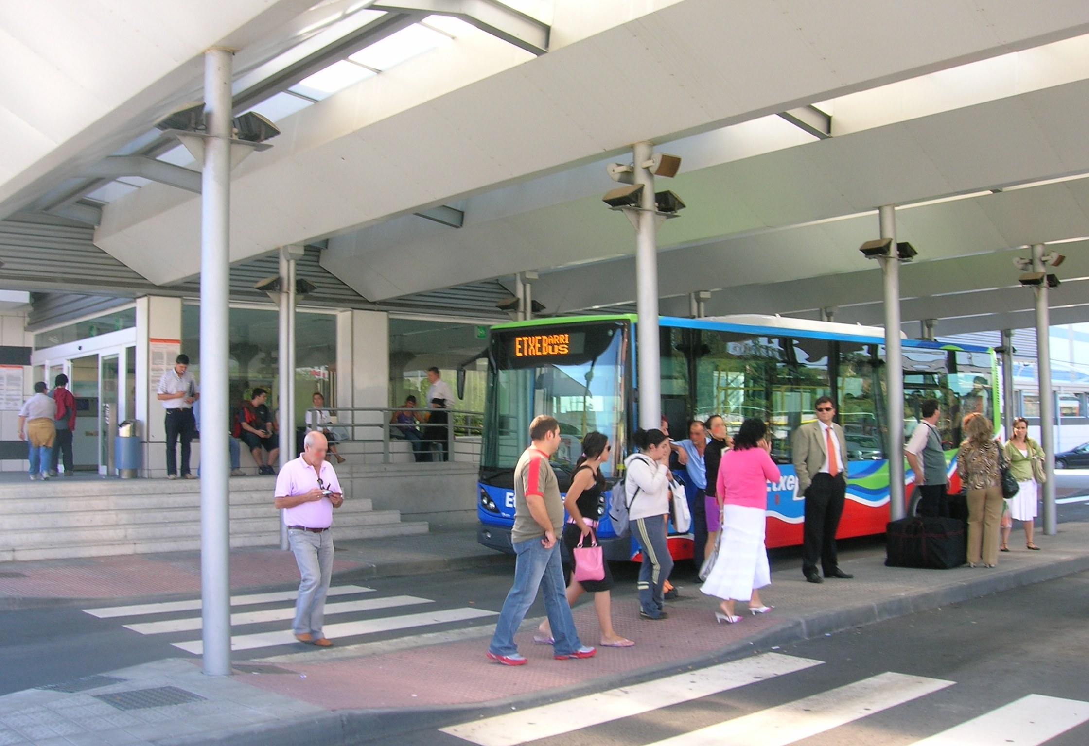 Bus stops at Etxebarri metro station.